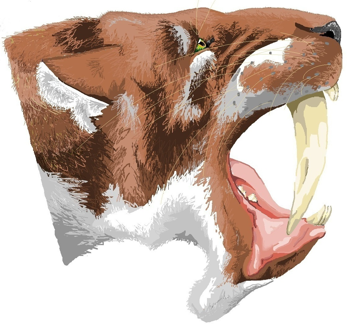 the hyper carnivore Barbourofelis in a reconstruction